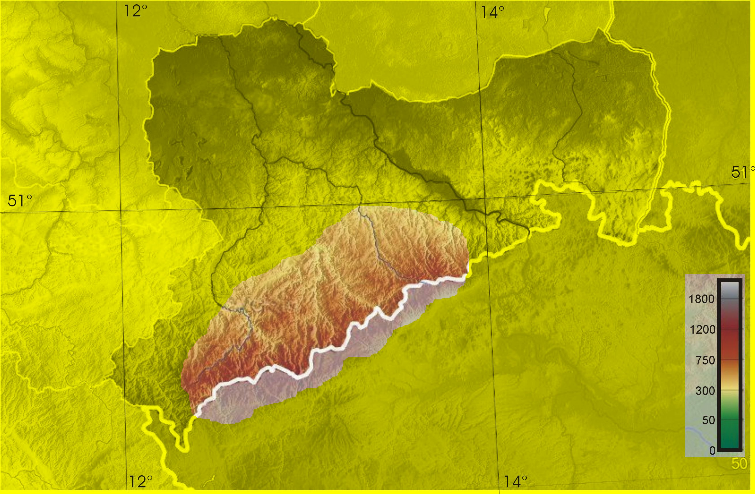 physical map of Ore Mountains